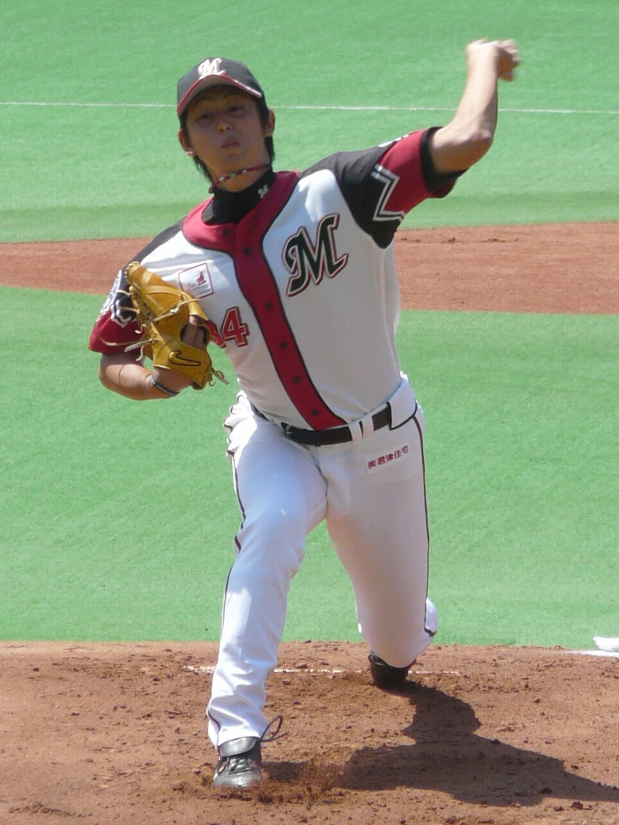 Yuta Kimura, pitcher of the Chiba Lotte Marines, at Chiba Marine Stadium.